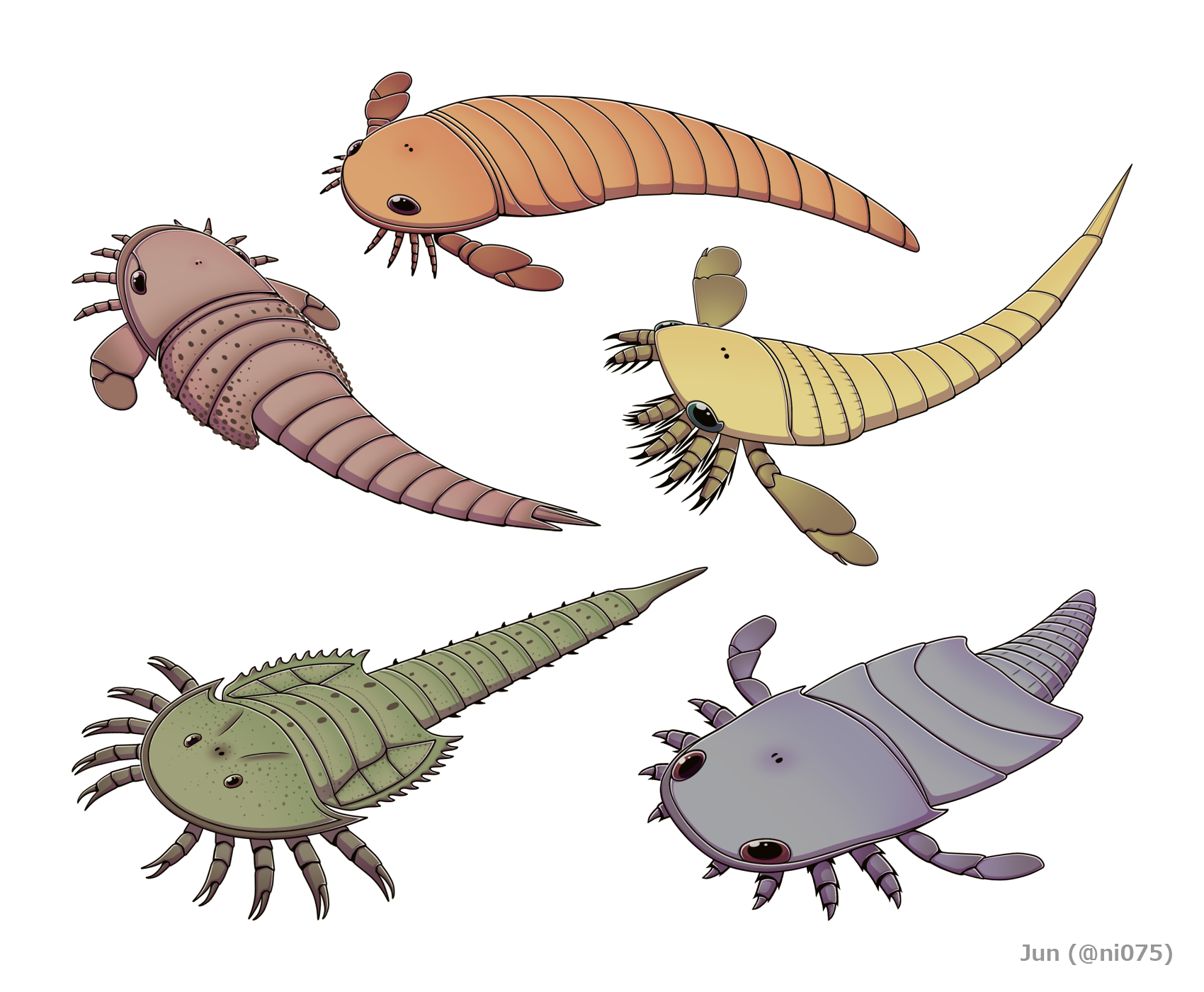 Examples of chasmataspidid (Chasmataspidida). Size not to scale.